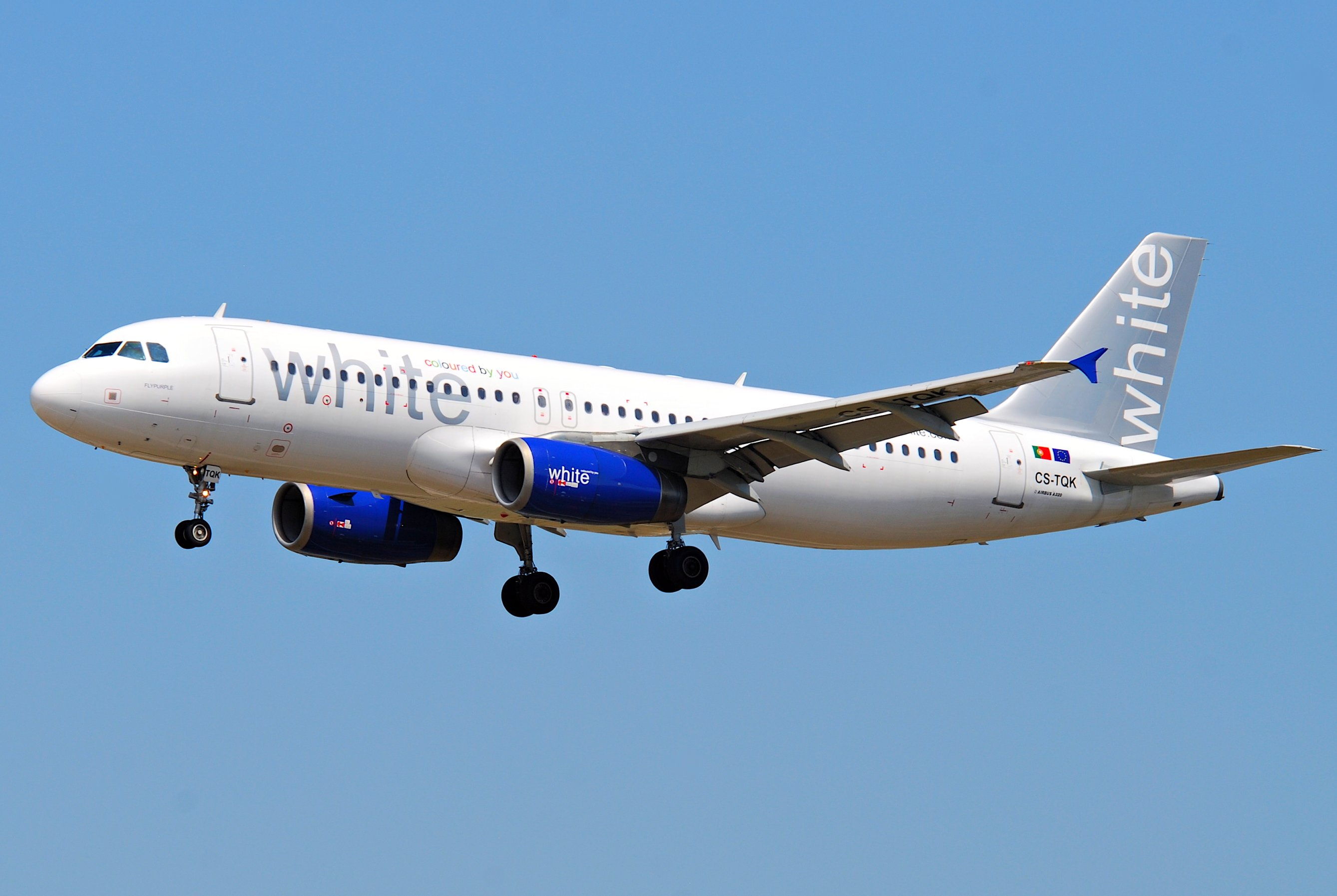 First flight: April 5, 2004...(c/n 2204) 25/06/2004 Tiger Airways 9V-TAA 27/05/2009 White CS-TQK 14/04/2011 Volaris XA-VOU